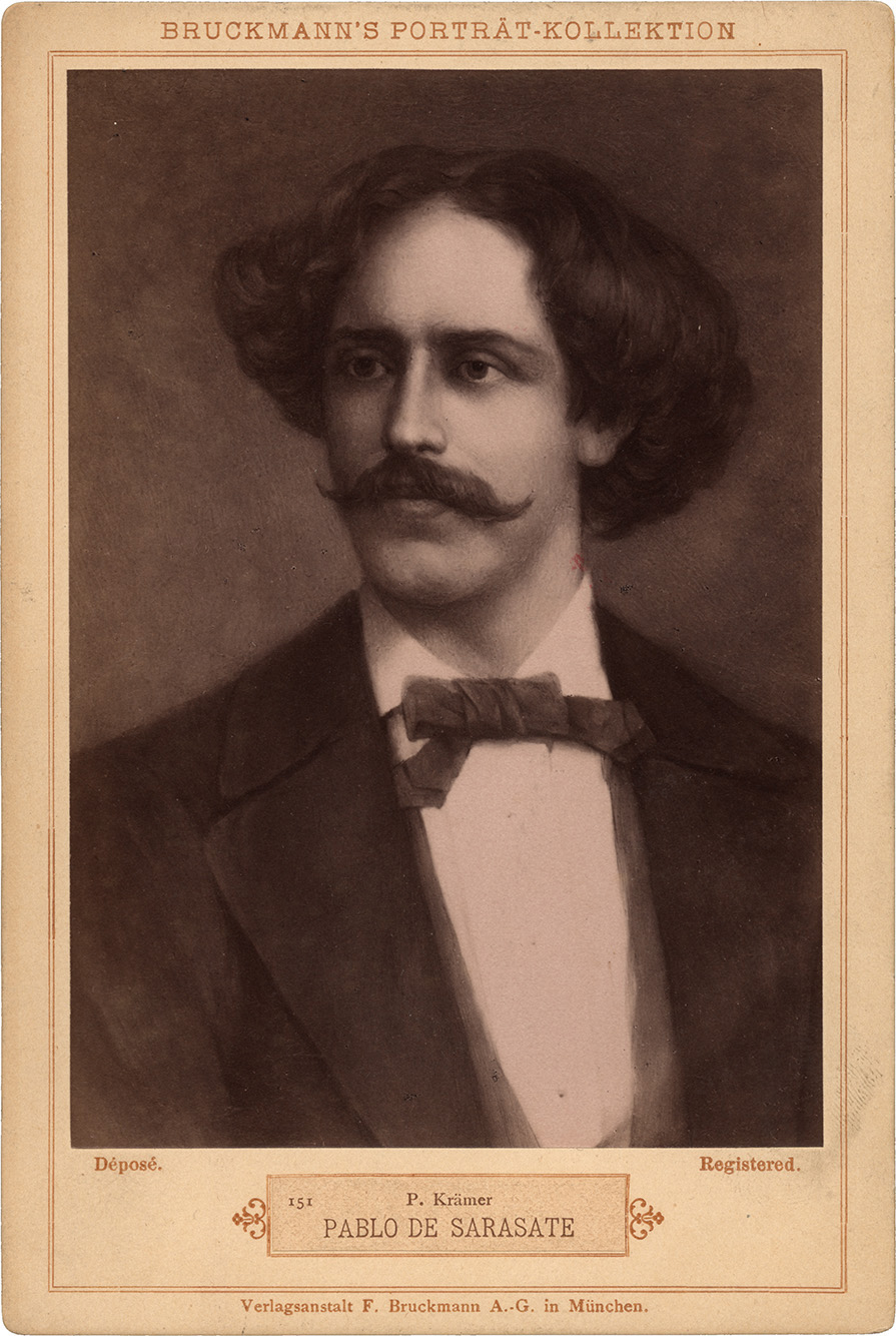 Portrait of Pablo De Sarasate, composer (1844-1908). Photo by Friedric Bruckmann, before 1908.